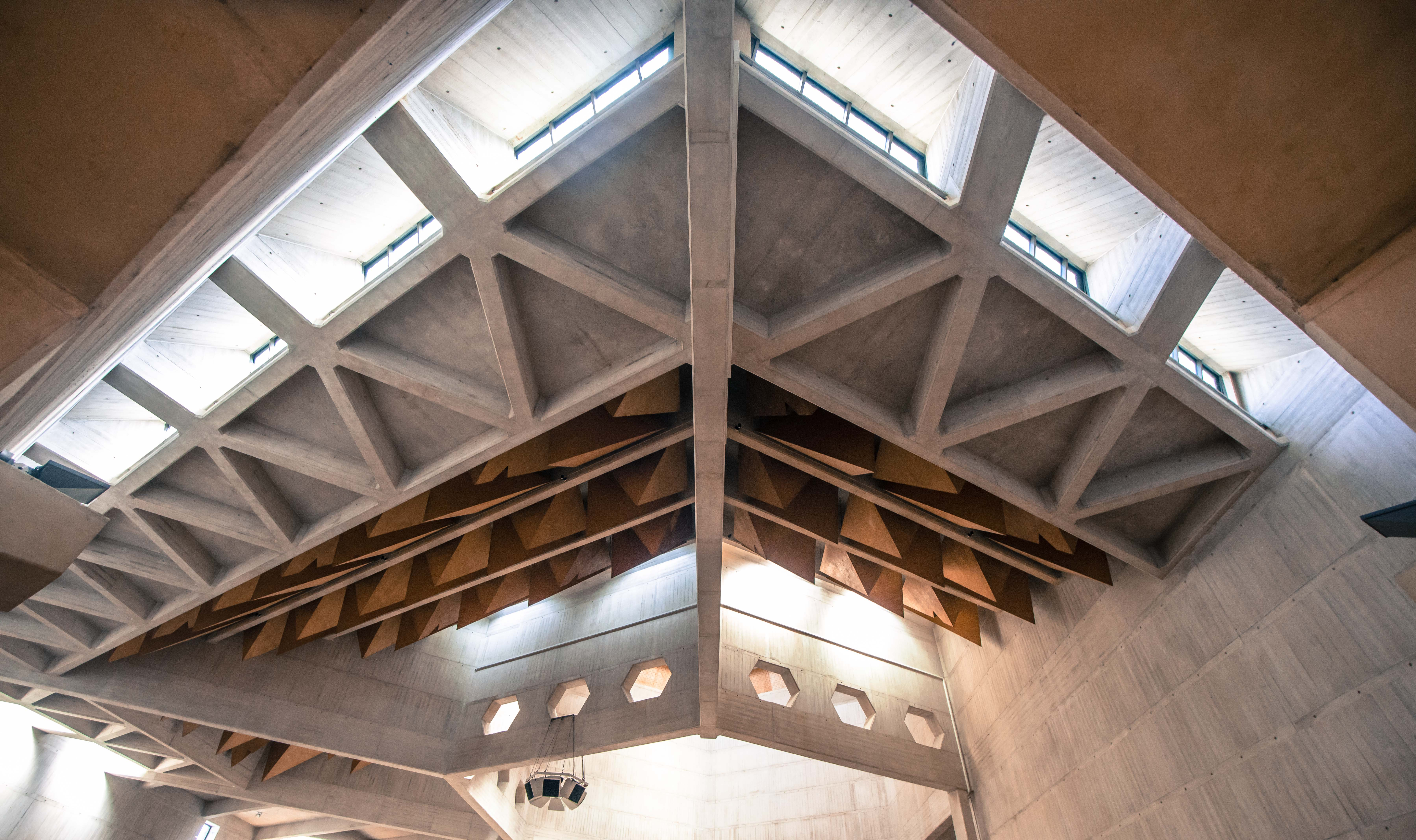 The interior of Clifton Cathedral, Bristol, UK